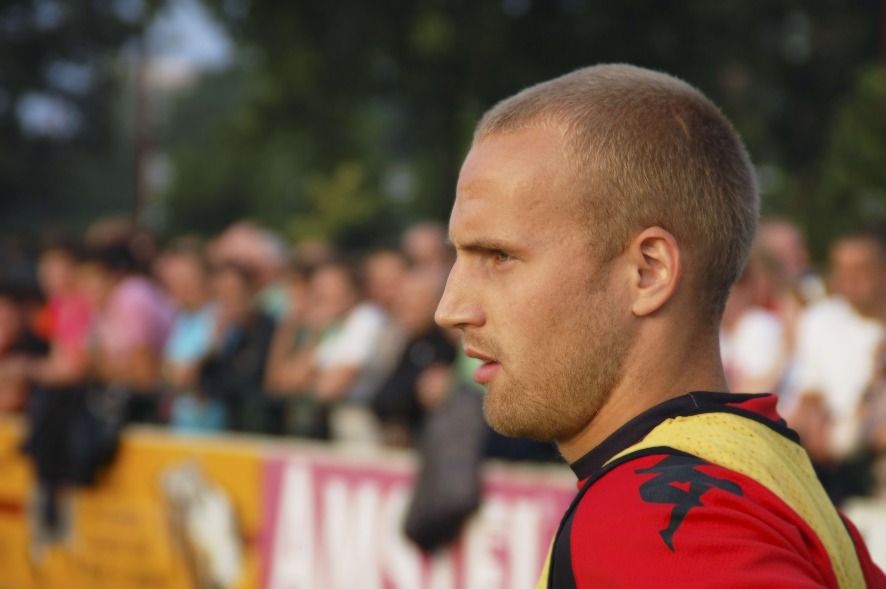 Ismo Vorstermans a dutch player for Fc Utrecht